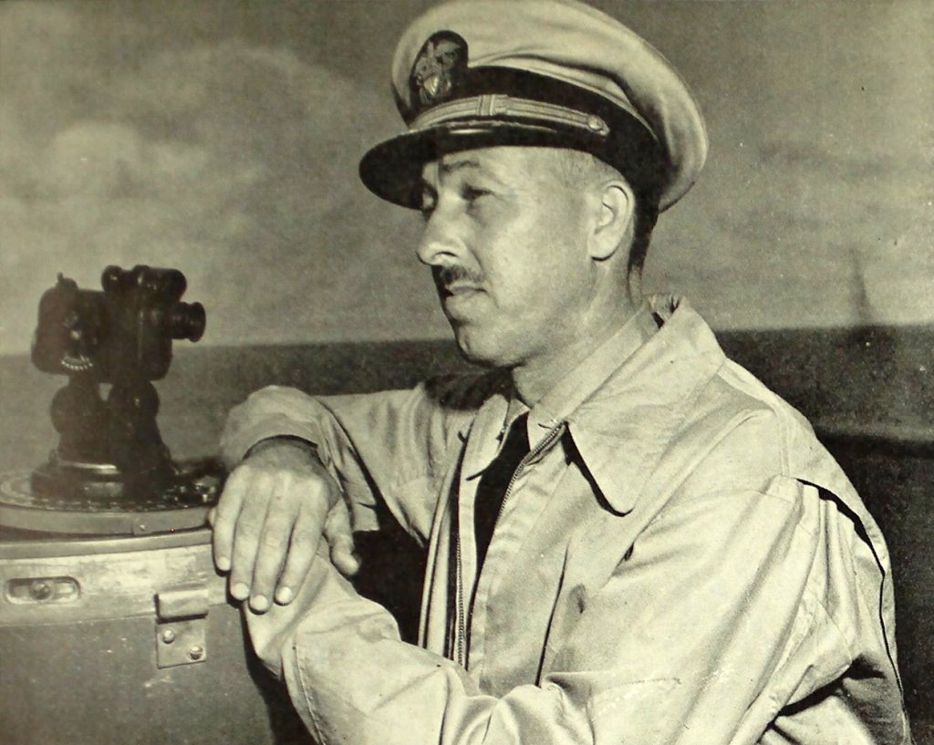 Captain Frank Akers, US Navy, commander of the USS Saratoga (CV-3) (circa 1945)